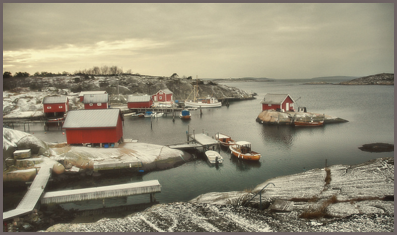 Photo; Jack R. Johanson